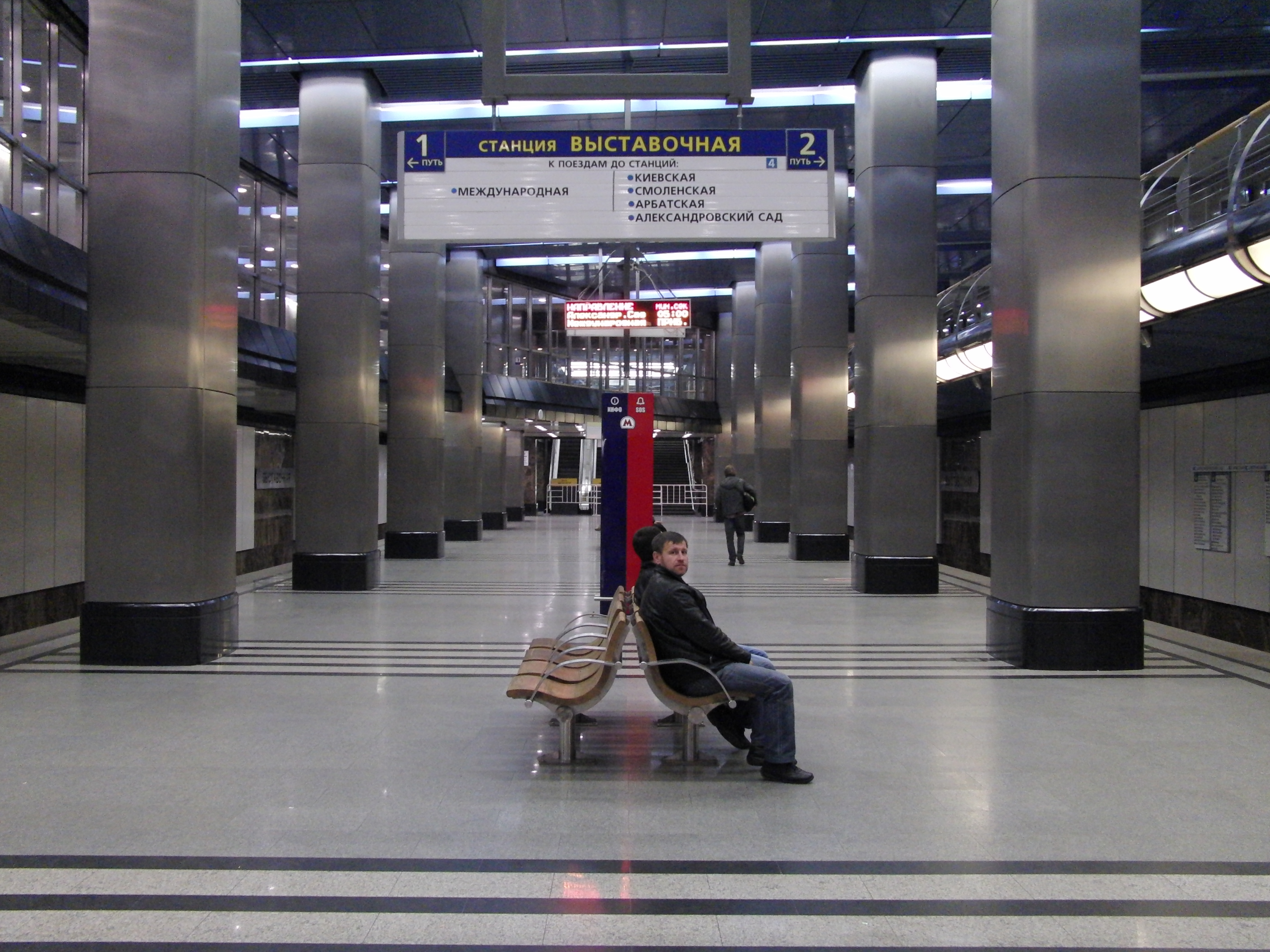 Vystavochnaya station in 2010.